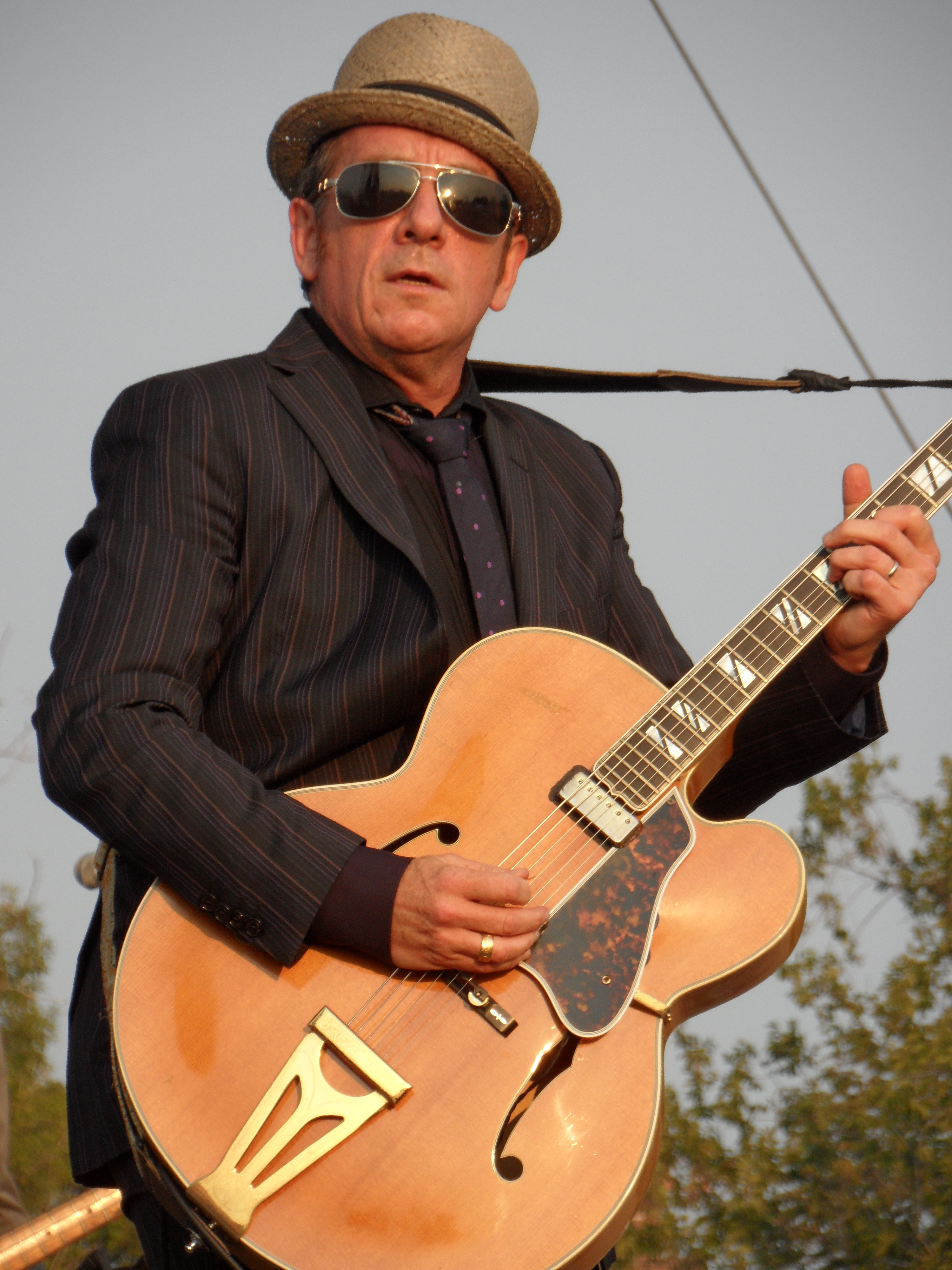 Elvis Costello performing live at Riot Fest in Chicago, 9/16/2012